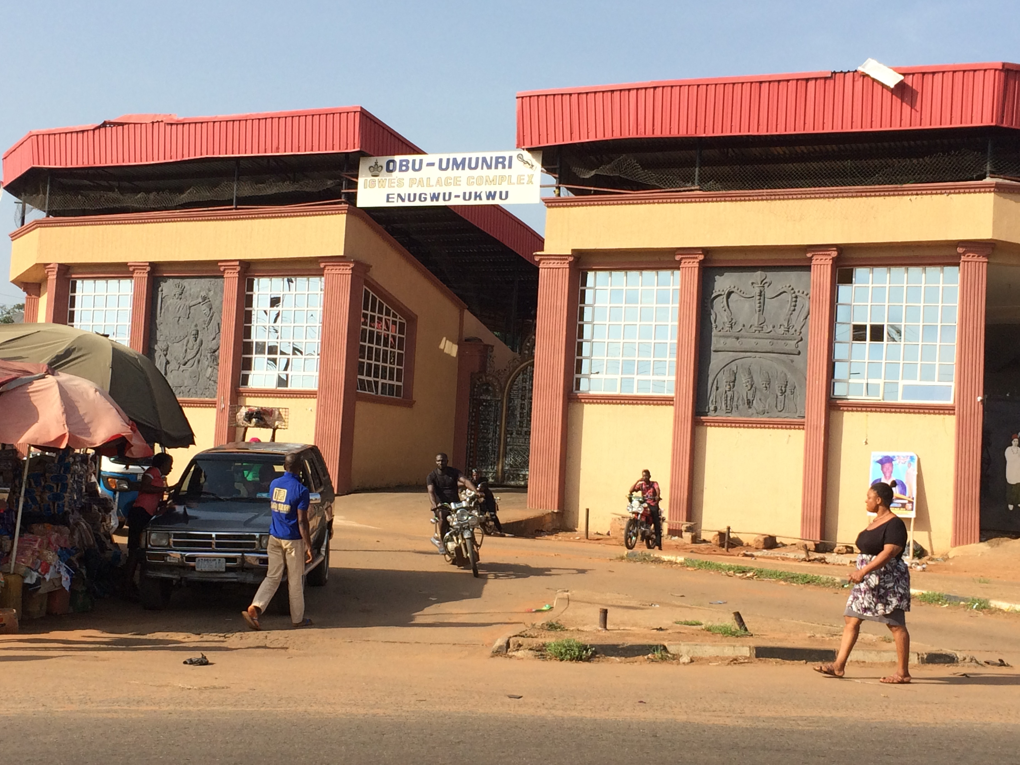 Obu Umunri clan